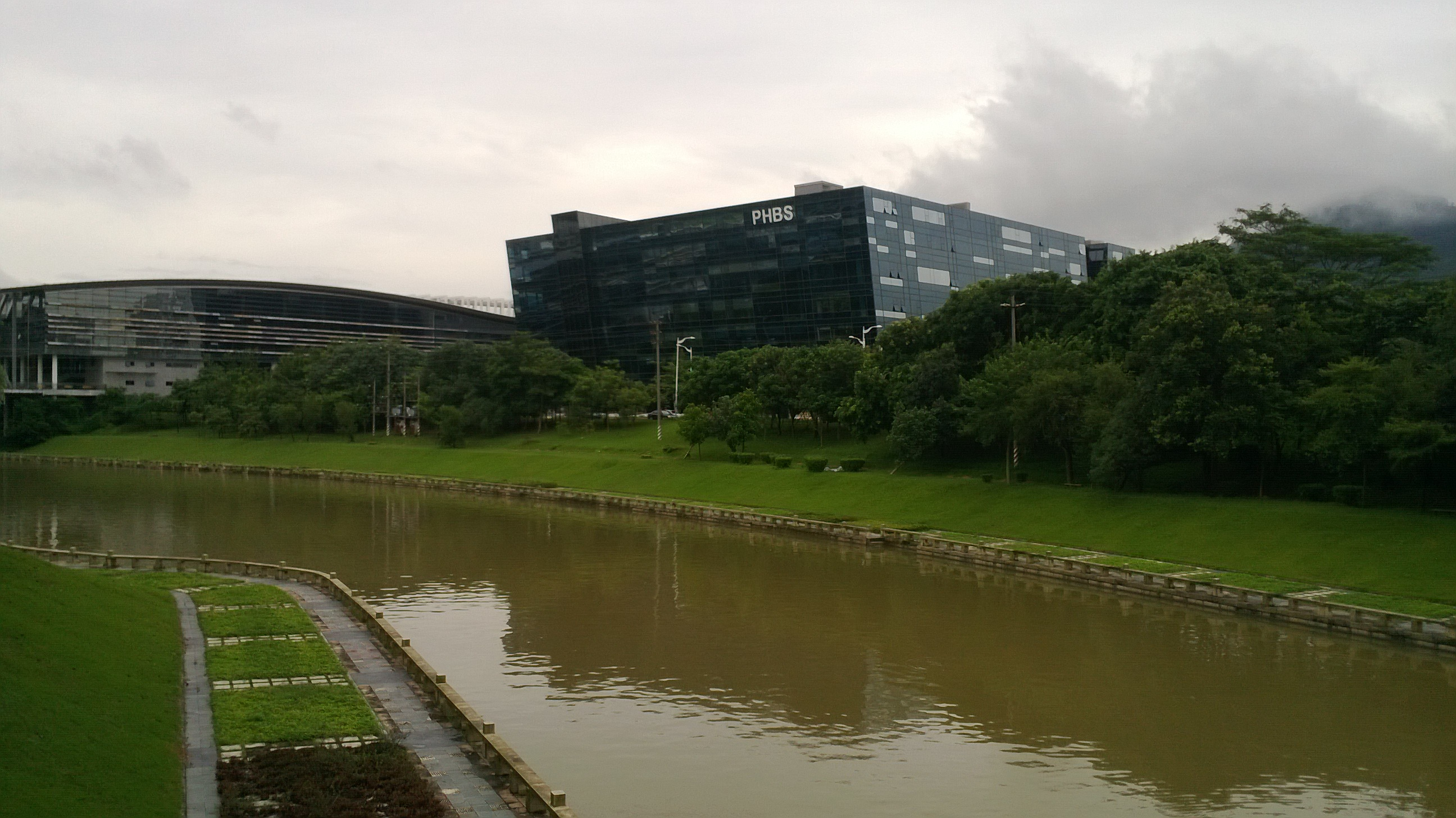 This is a picture of Peking University HSBC Business School with the library.